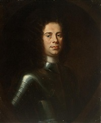 WILLIAM GORDON, 6th Viscount Kenmure (d. 1716), Jacobite, of Kenmure Castle, New Galloway, Scotland